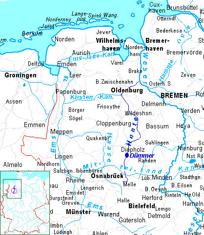 Position of Hunte river in north-western Germany.